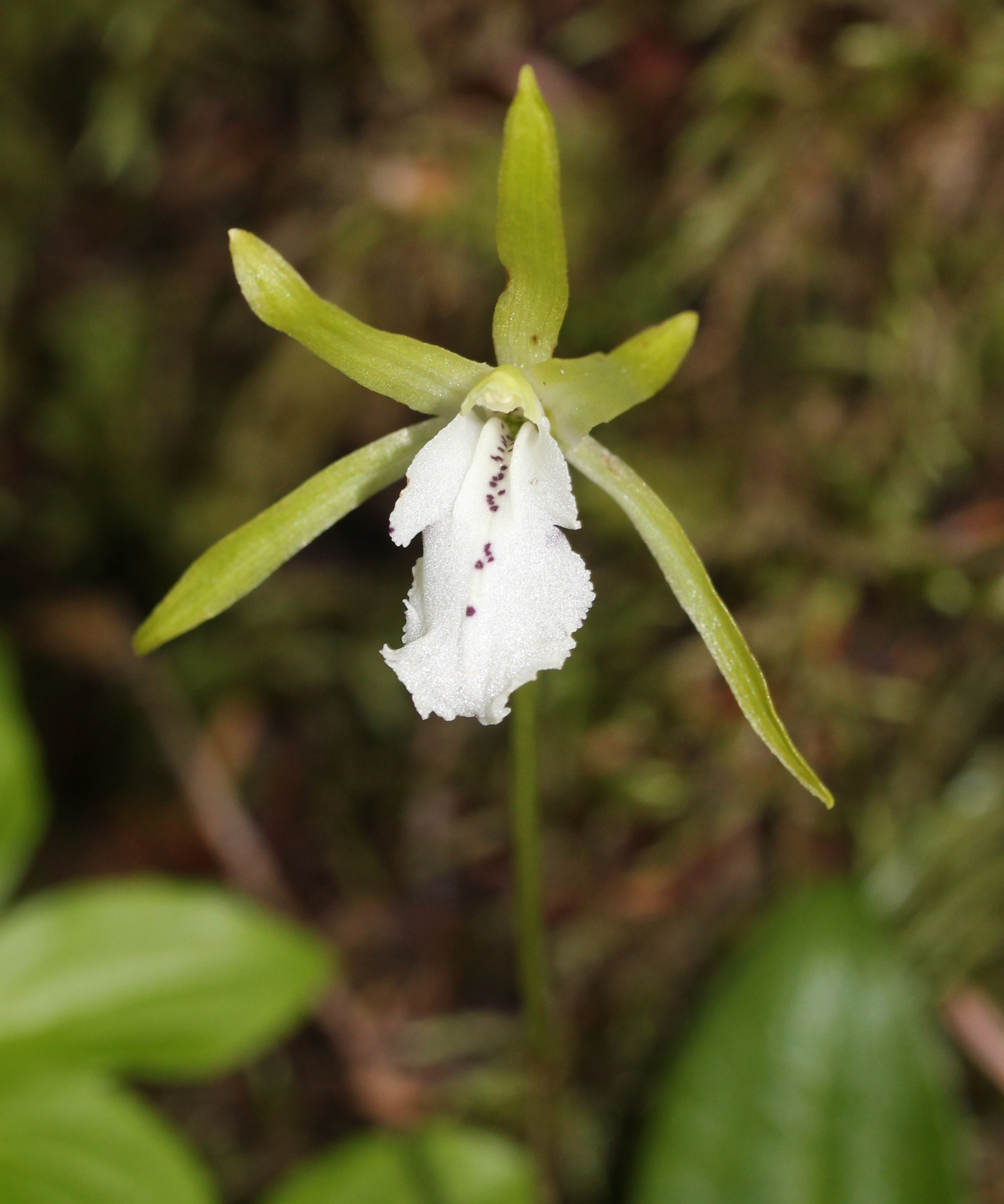 Dactylostalix ringens in Mount Chō, Hida Mountains, Azumino, Nagano prefecture, Japan.